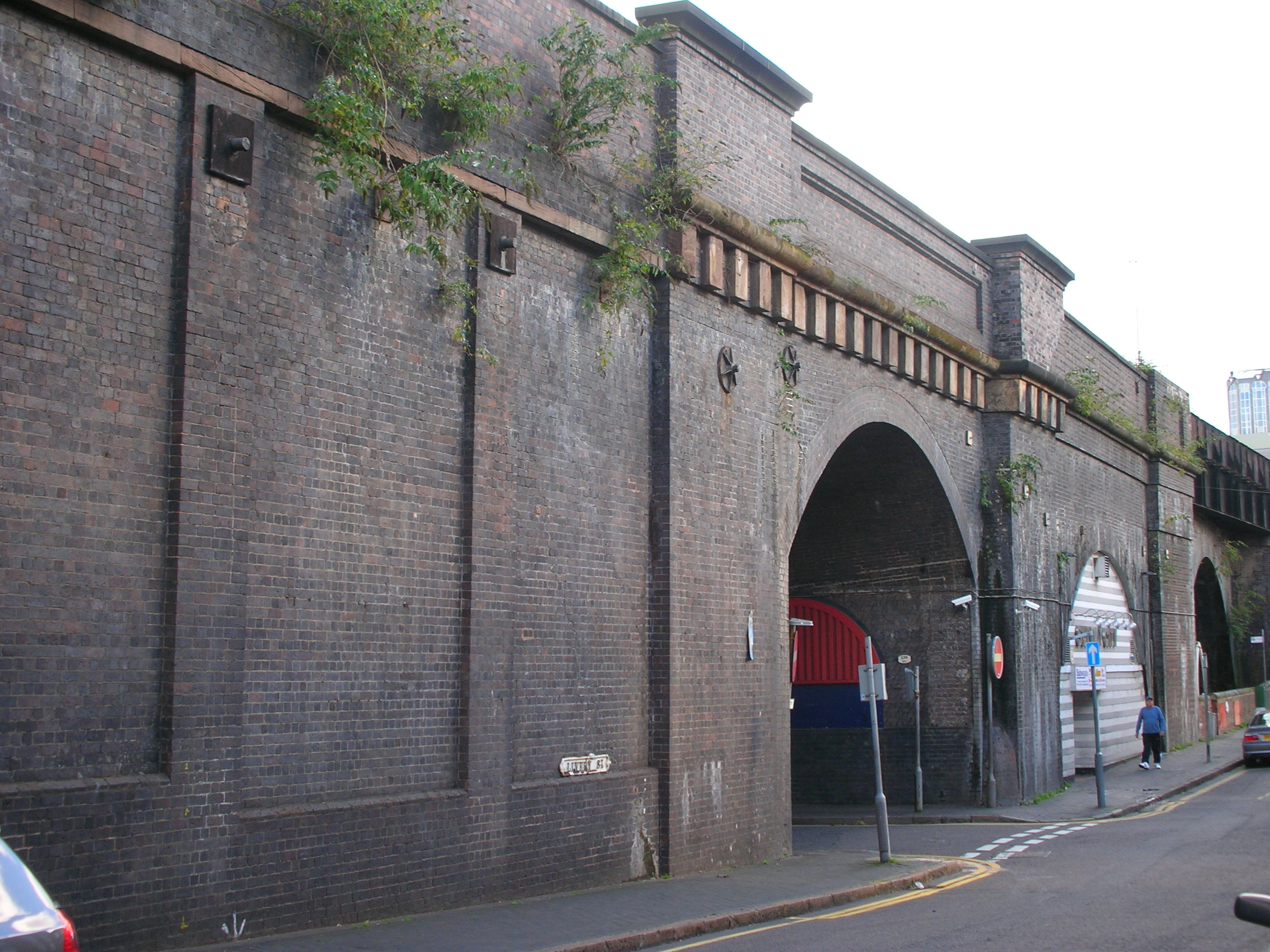 The viaduct carrying the line and platforms of Birmingham Snow Hill station towards Wolverhampton. Made with Staffordshire blue brick. Photographed by me 26 October 2006. Oosoom